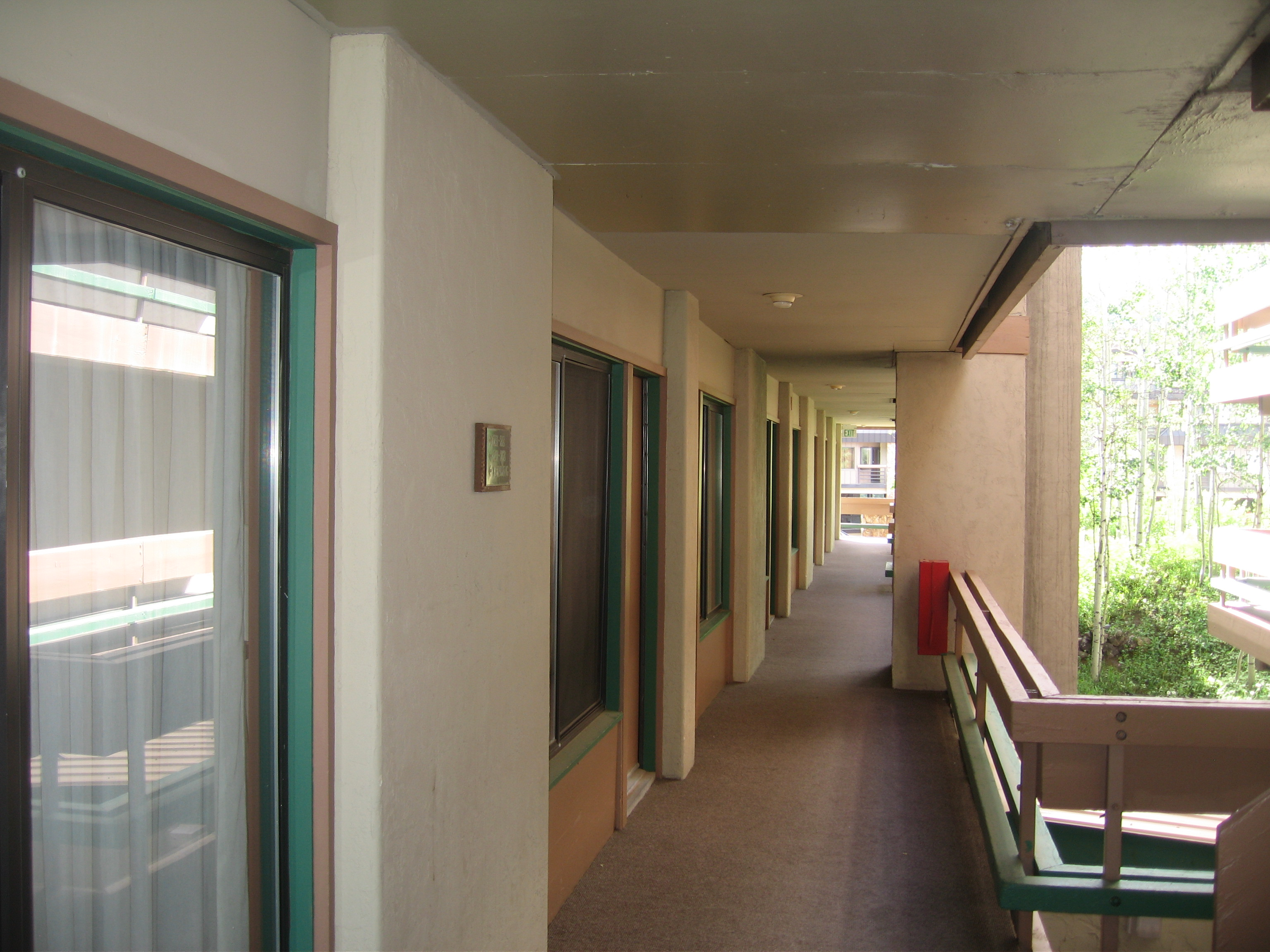 Walkway where Caryn Campbell met Ted Bundy on the night of Jan. 12, 1975. Location is the Wildwood Lodge (then the Wildwood Inn), Snowmass Village, Colorado. Bundy abducted Campbell and murdered her, dumping her body on a secondary road just outside of town.